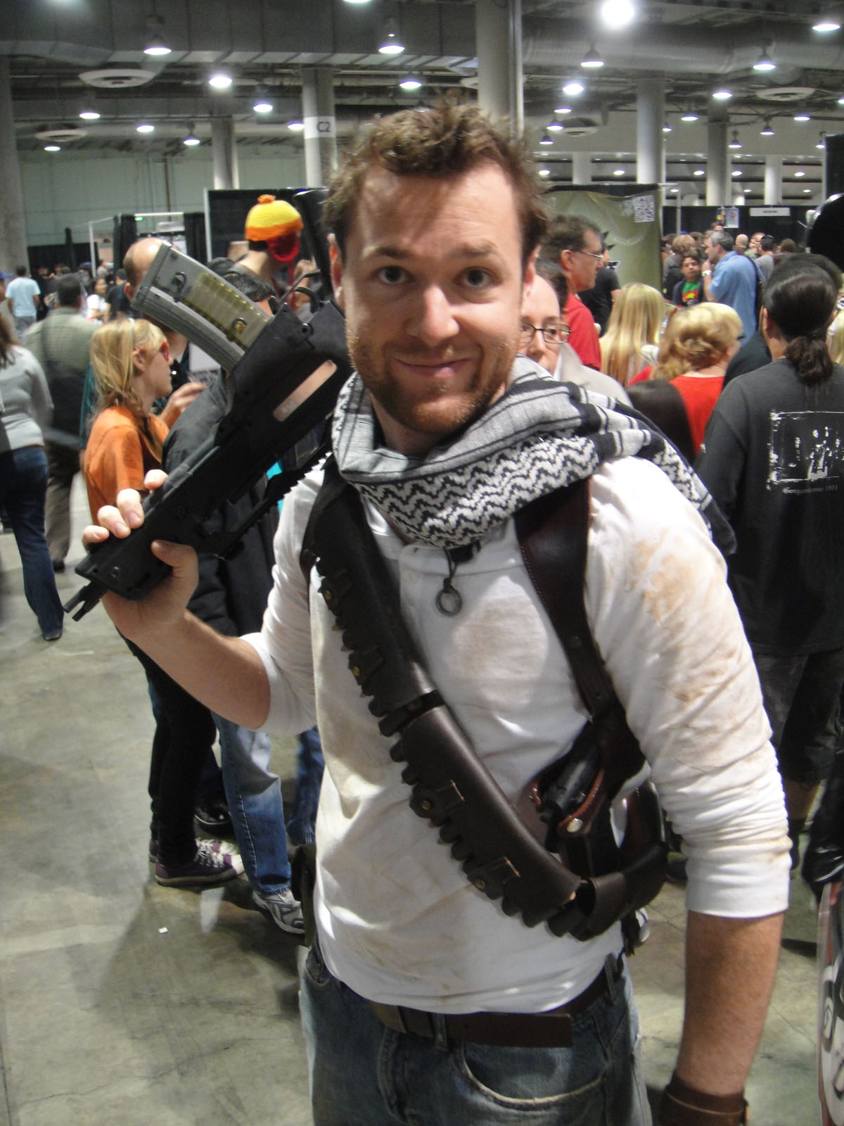 photo 2011 Pop Culture Geek taken by Doug Kline If you're interested in higher resolution versions of my images, contact me via my profile page.